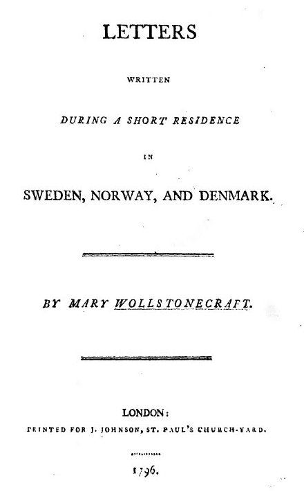 Title page from Mary Wollstonecraft, Letters Written During a Short Residence in Sweden, London: J. Johnson, 1796.